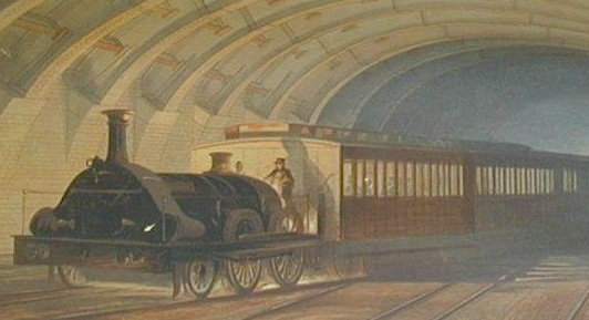 Crop of Chromolithography showing a Great Western Railway broad gauge train at Praed Street junction near Baker Street.